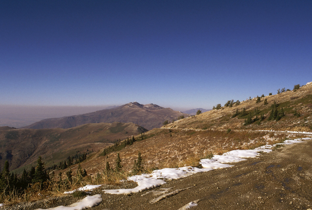 Wasatch Mountains, as taken on the Bountiful-Farmington Loop Road Scenic Backway